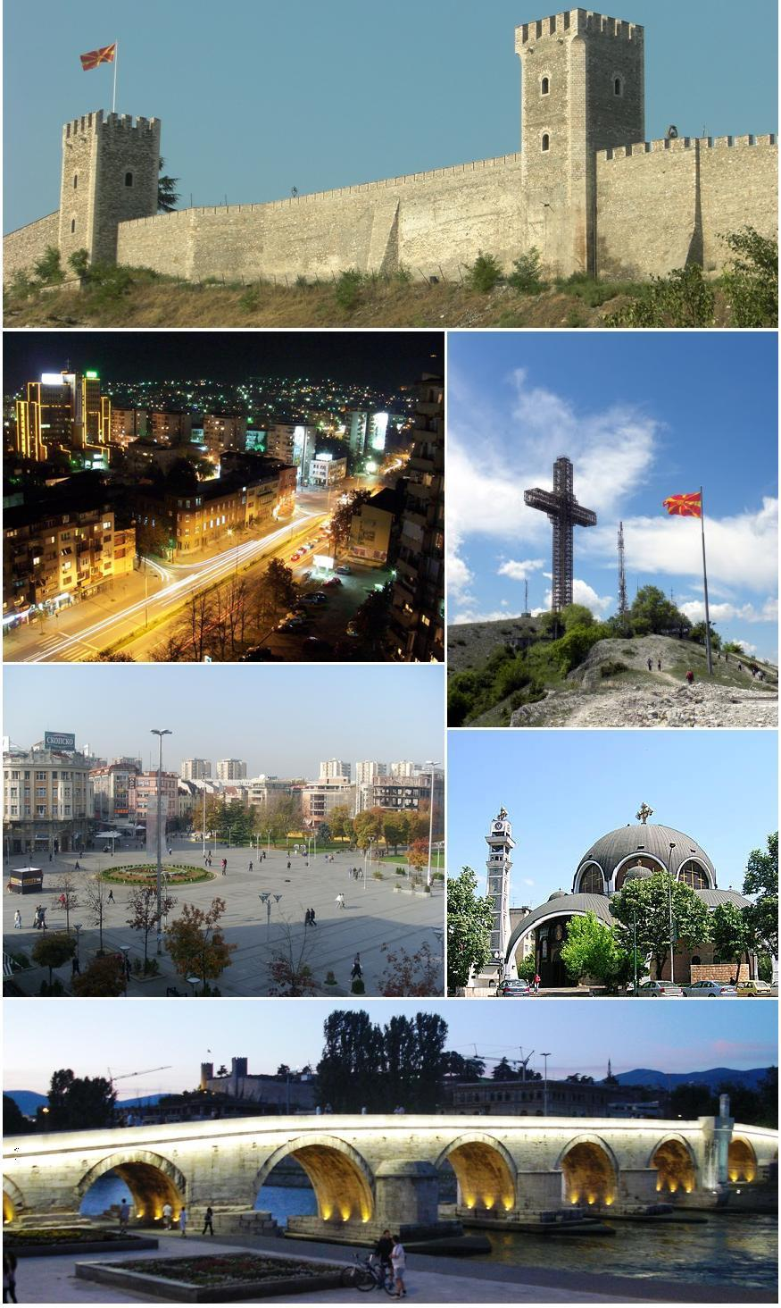 Some landmarks of Skopje. Some of the pictures are my work, and some of them are free pictures from wikipedia commons.